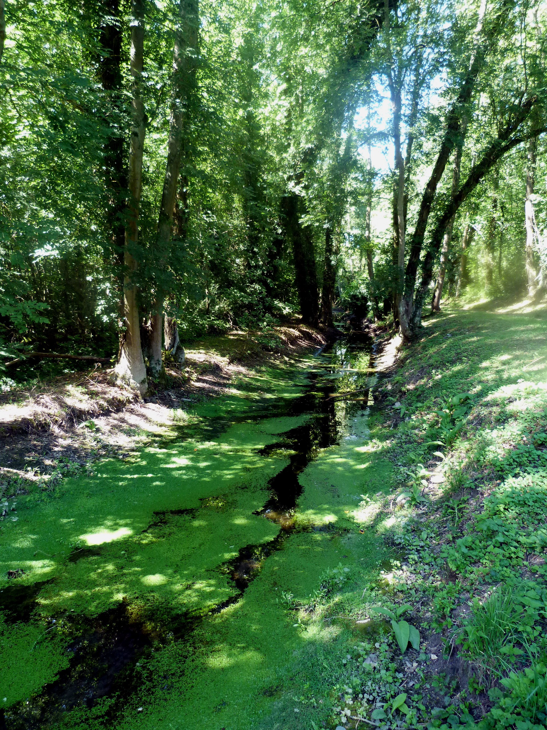 An arm of the Voise to Monjudé, town Levainville, Eure-et-Loir, France.